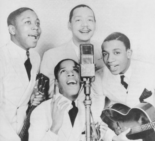 The Ink Spots